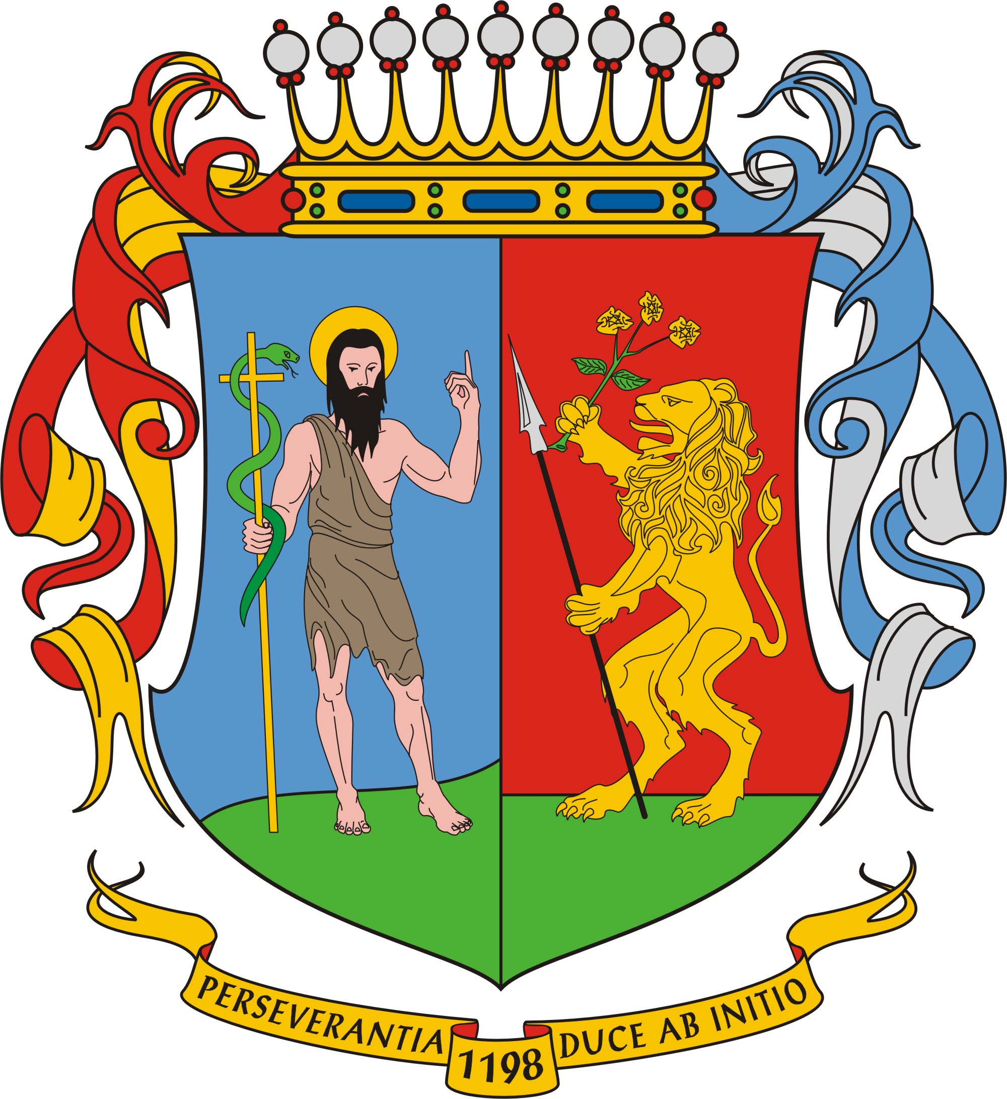 Coat of arms of Felsőszentiván, Hungary